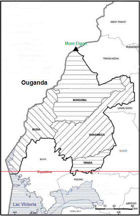 Western Provinces' Counties (Kenya)